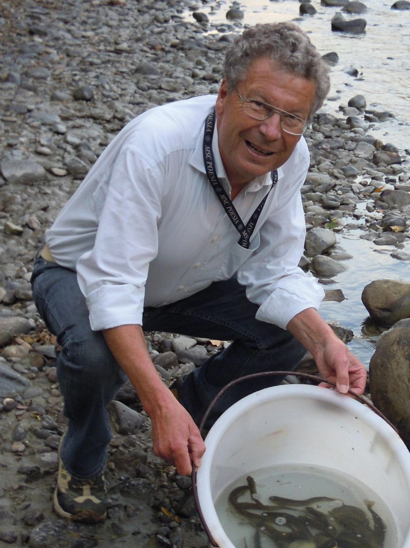 Folklorist Axel Huber near Lake Millstatt, district Spittal an der Drau in Carinthia / Austria / European Union.